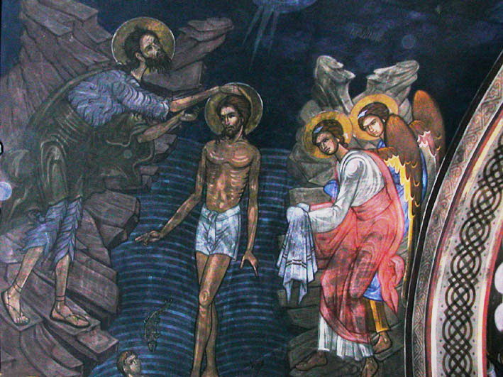 Monastery Gorioč - author Nikostrat Saronic